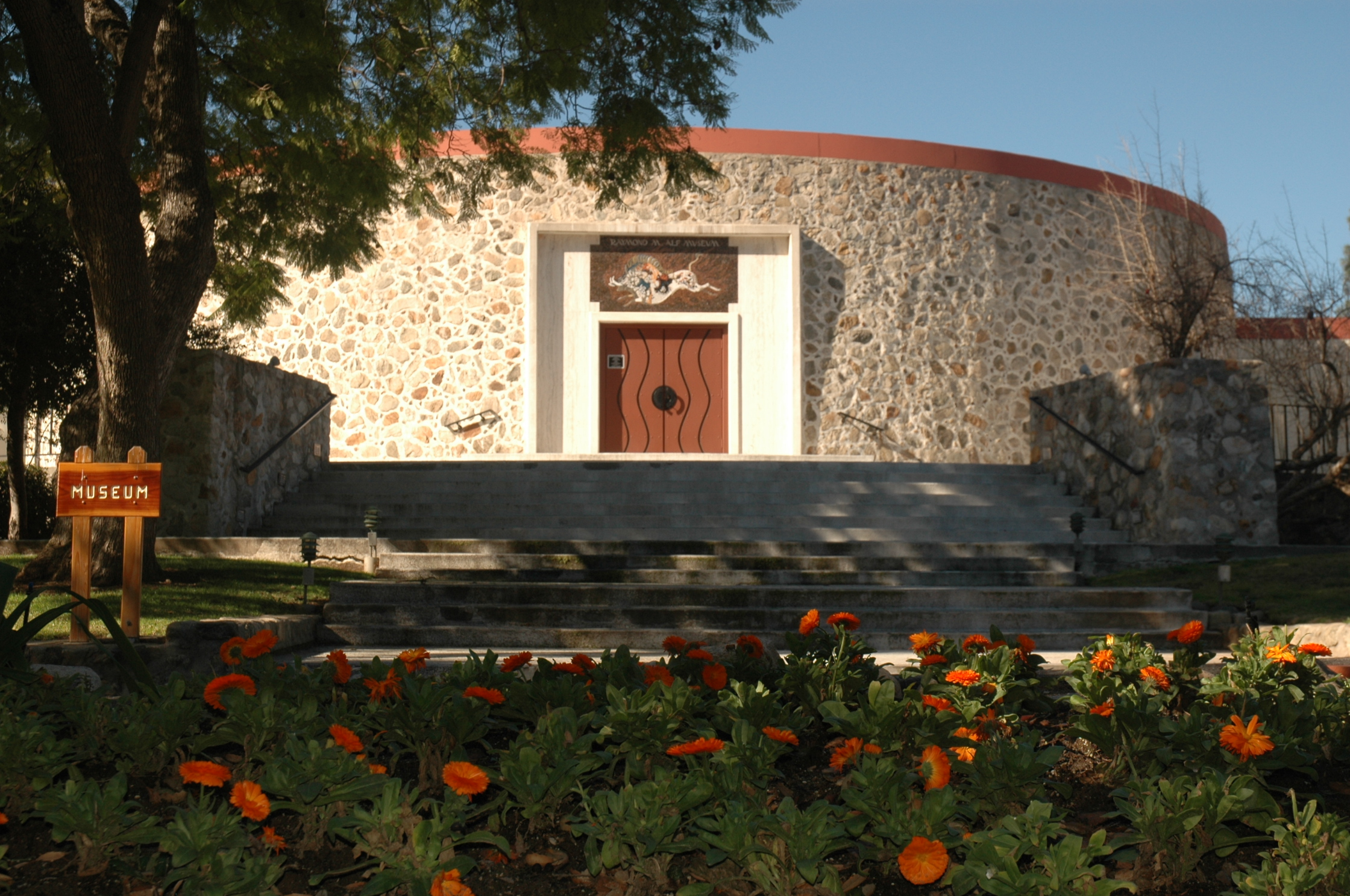 This photo shows the facade of the Raymond M. Alf Museum of Paleontology located on The Webb Schools campus, Claremont, CA.